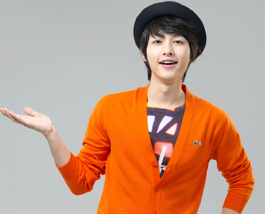 LG XNOTE TV promotion photograph